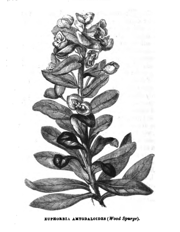 Euphorbia amygdaloides or wood spurge. Illustration by Emily Stackhouse for C.A. Johns, Flowers of the Field (1851), p. 168.